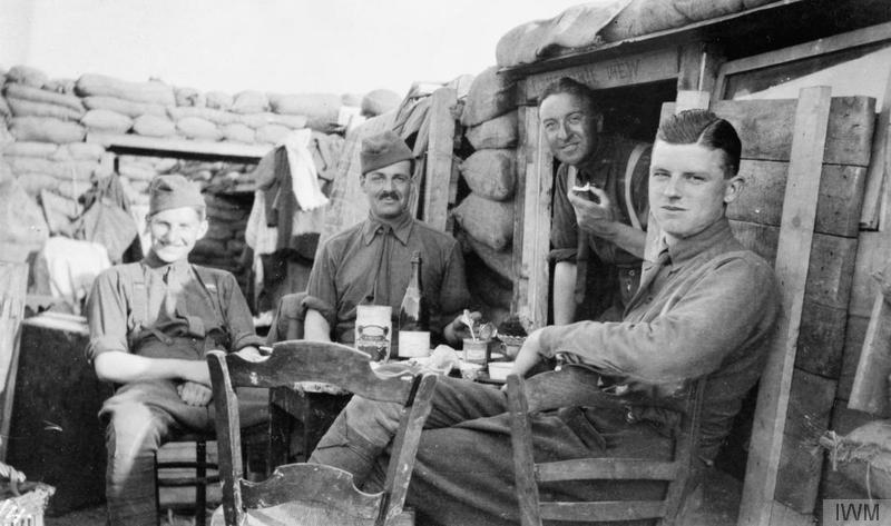 The Second Battle of Artois, May-june 1915 Officers of the 'C' Company, 1st Battalion, Cameronians (Scottish Rifles) taking a tea break in the trenches at Grande Flamengrie Farm on the Bois-Grenier sector of the line in May 1915.